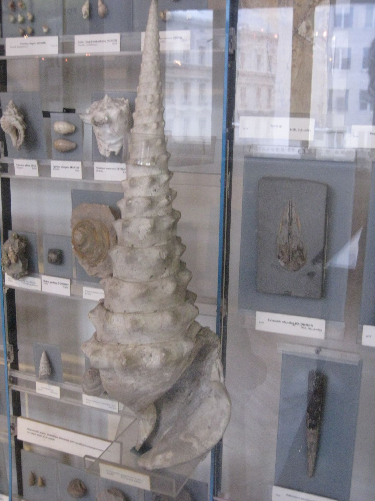 Fossil shell of Campanile giganteum That is a one huge shell.